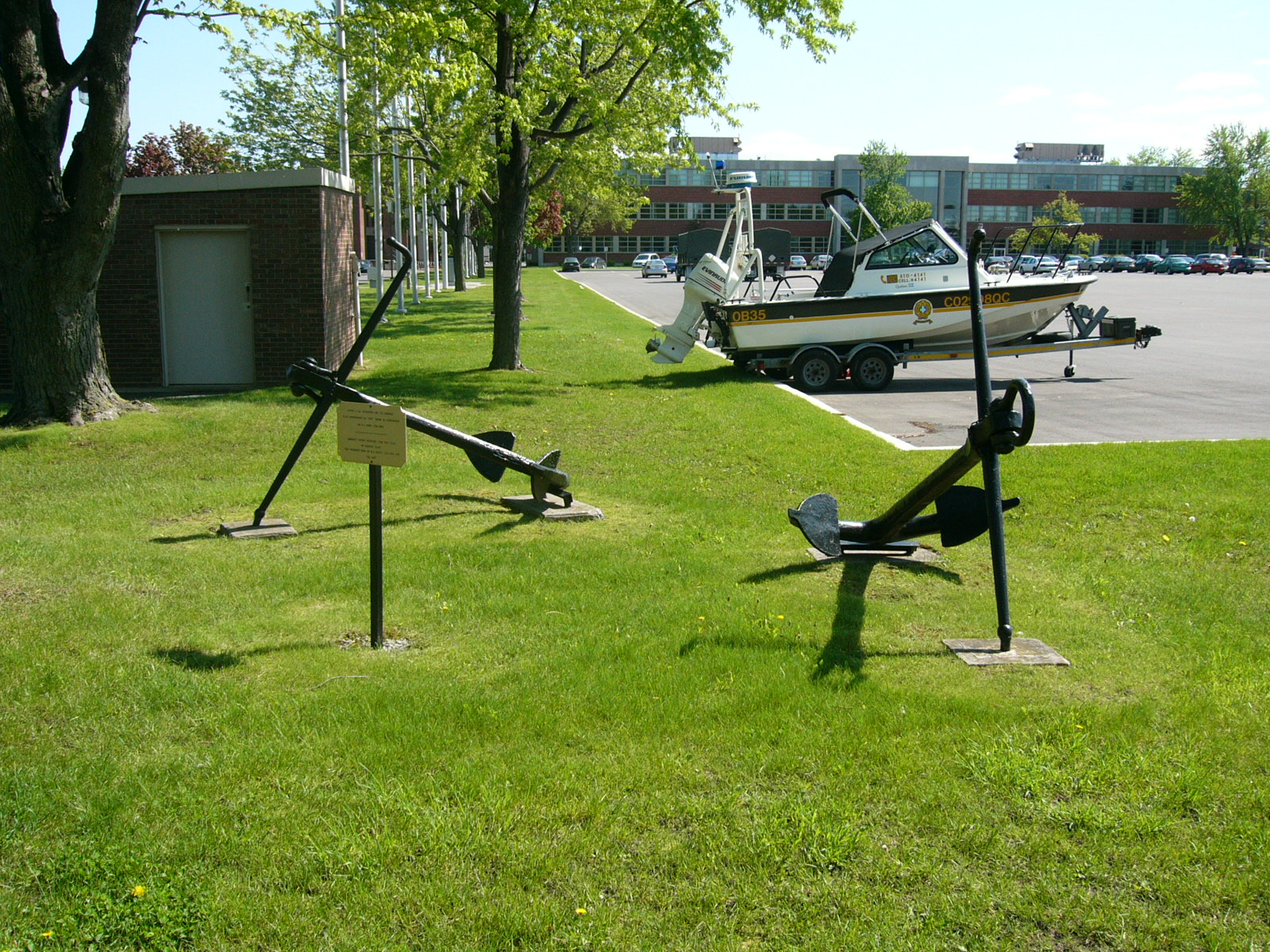 Commander William Edward Parry, RN, FRS abandoned the beset HMS Fury at "Fury Beach", Somerset Island, Nunavut in 1825. He left two admiralty pattern anchors, stores and boats on the beach for future explorers to use. The anchors remained as landmarks for navigators for 136 years. In 1956 Capt T.C. Pullen, RCN sailing in CCGS Labrador recovered the anchors which eventually came to be displayed at the Museum of Fort Saint Jean. The anchors of HMS Fury (1814) are on permanent display near a parade field at the Royal Military College Saint-Jean. "The HMS Fury anchors are on the northeastern corner of the Royal Military College Saint-Jean parade square" Quote: Eric Ruel, Conservateur, Musée du Fort Saint-Jean. Photo credit: Fort Saint-Jean Museum. Personal permission granted to User:Tjlynnjr by Mr. Eric Ruel, curator of RMC St. Jean Museum. Copy of permission will be furnished upon request. Eric Ruel, Conservateur Musée du Fort Saint-Jean 15, rue Jacques-Cartier Nord Saint-Jean-sur-Richelieu, Qc J3B 8R8 Téléphone musée: (450) 358-6559 Téléphone cellulaire : (514) 347-1464 Courriel